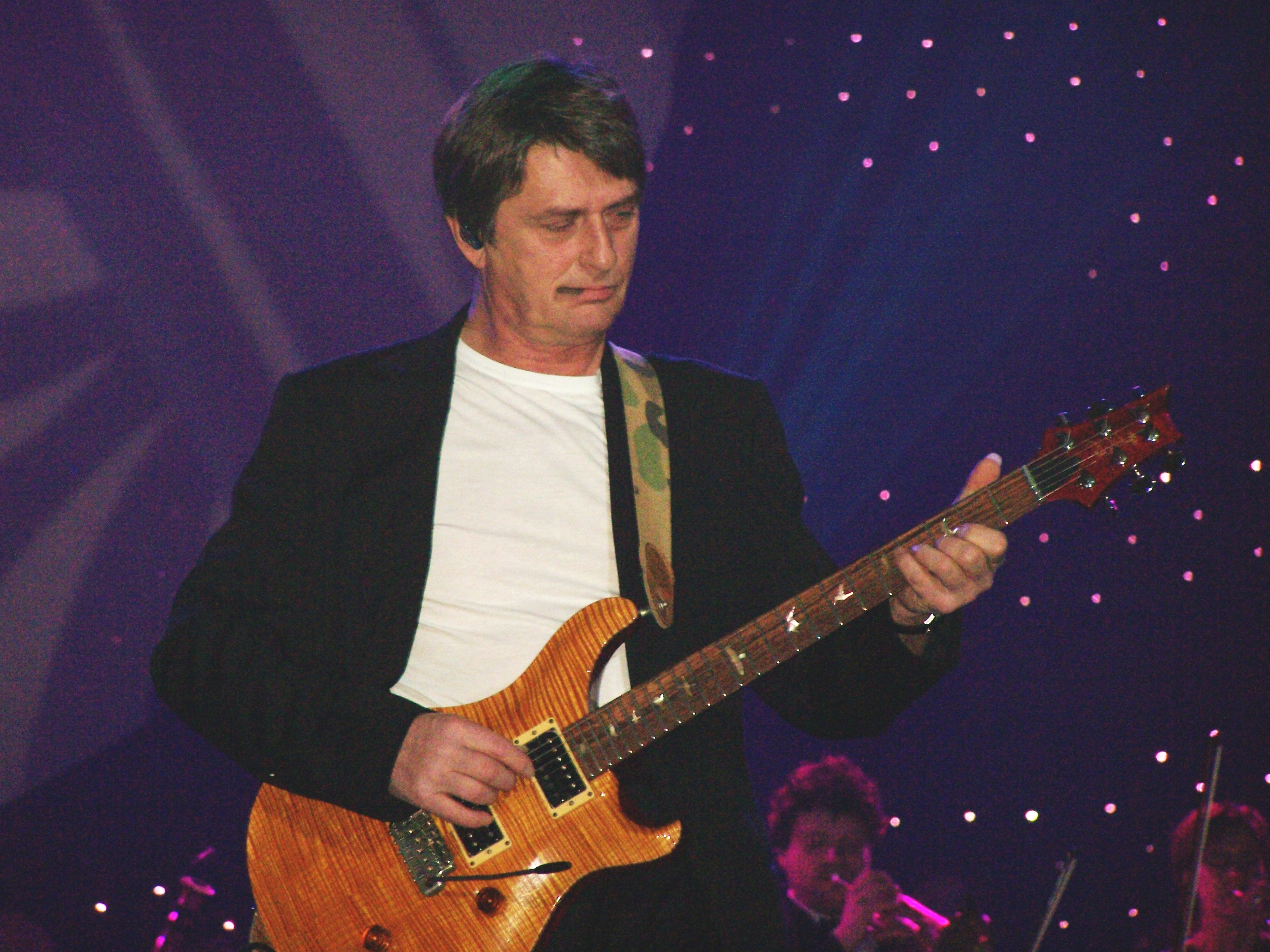 Mike Oldfield at the Nokia Night of the Proms in December 2006 in Frankfurt am Main